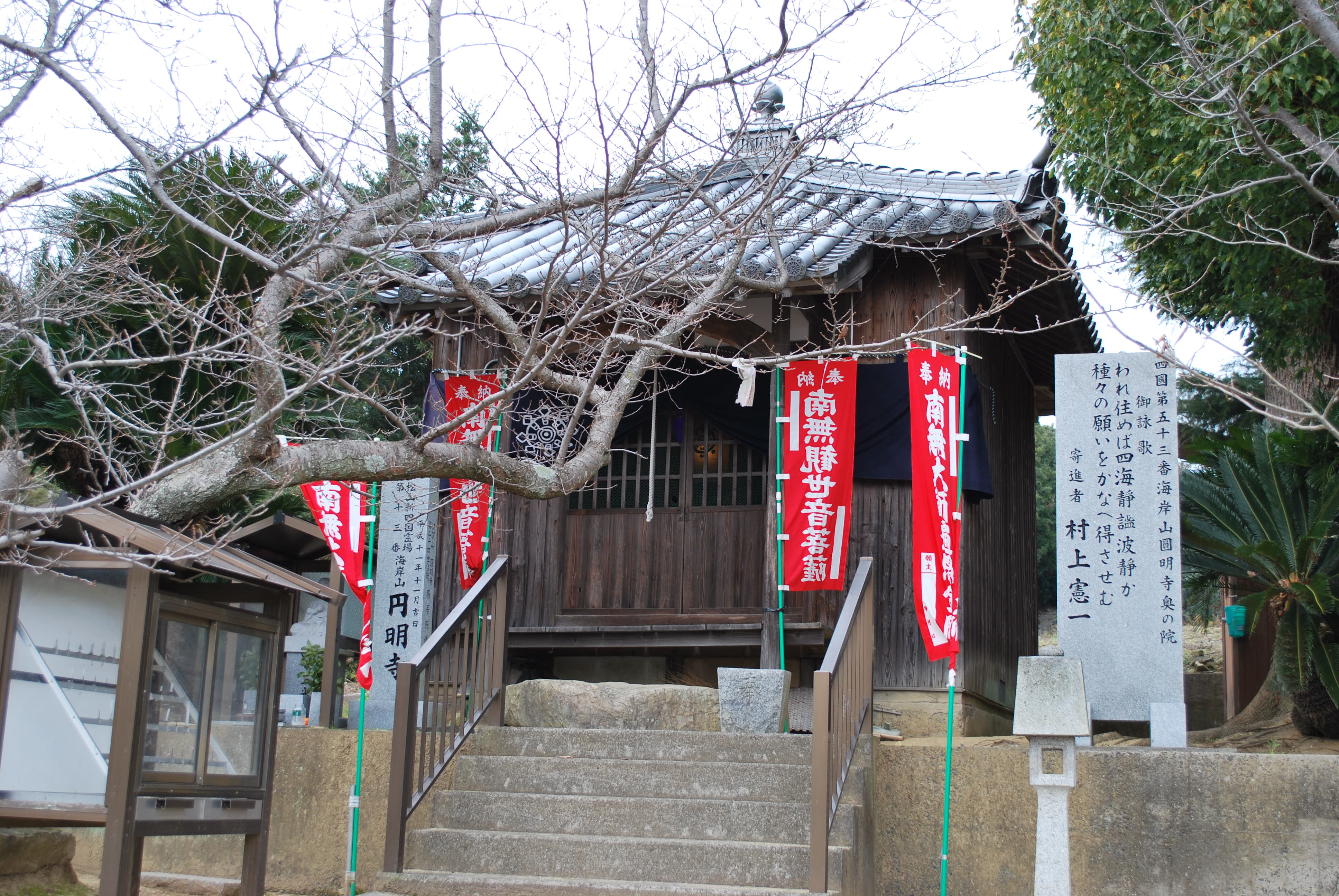 Enmyō-ji Okunoin